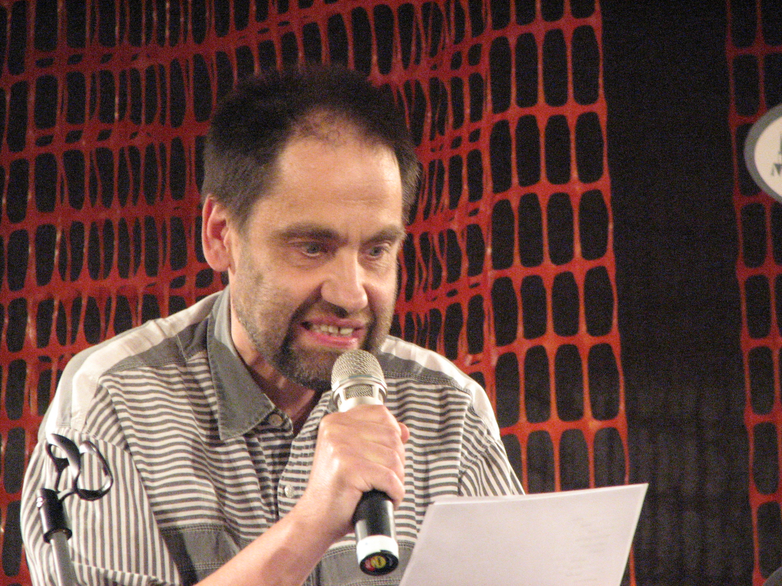 Estonian poet Jaan Malin performing in Tallinn Literature Festival HeadRead